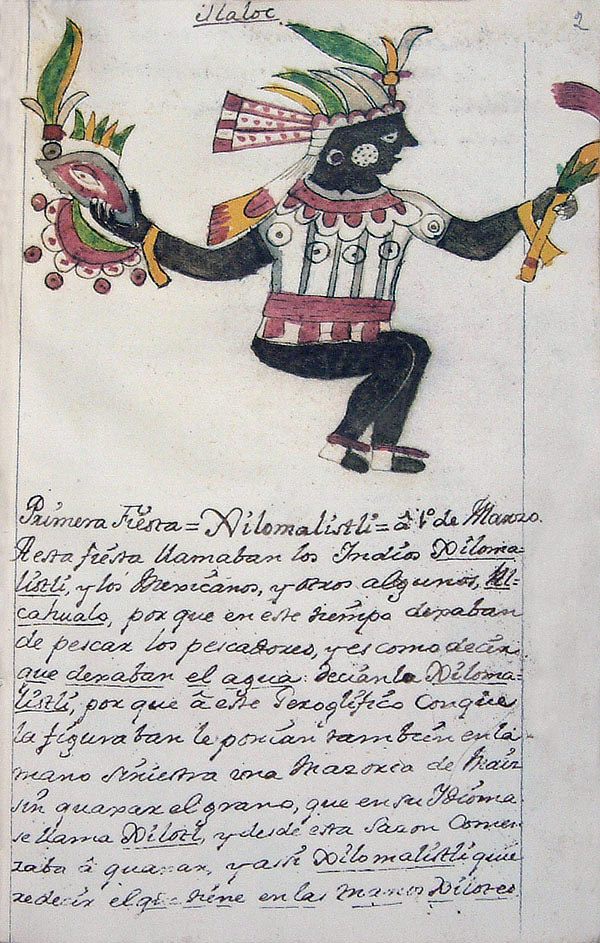 Codex Veytia, page 20.